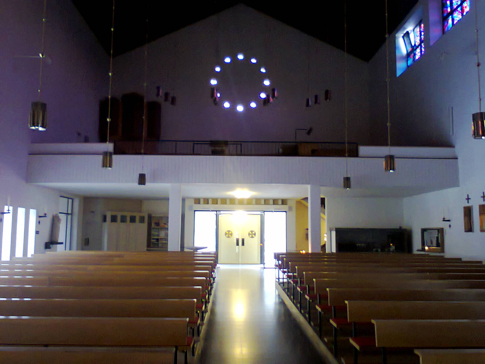 Pius X church Schüttdorf